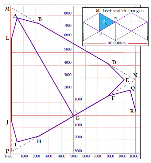 This is a diagram with an inset to demonstrate how to construct a Cahill-Keyes map projection.